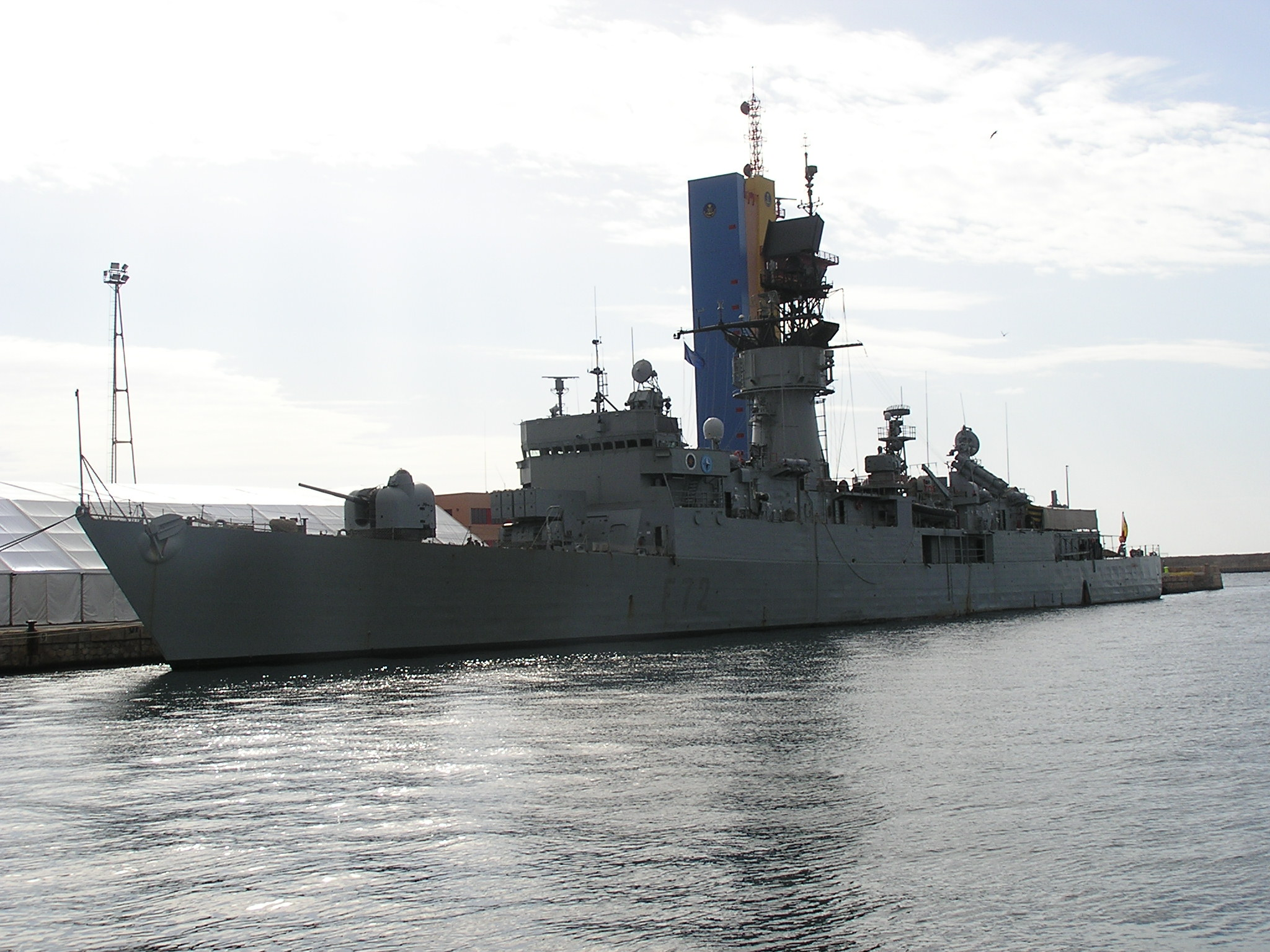 Spanish frigate Andalucia, Almería, Spain.